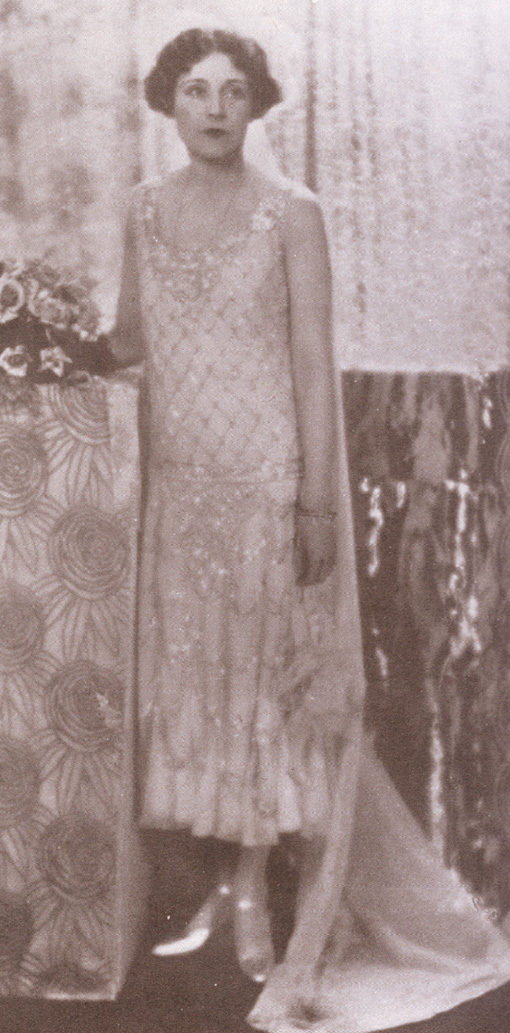 Randy Bryan Bigham Collection, owner by way of gift from subject/copyright holder